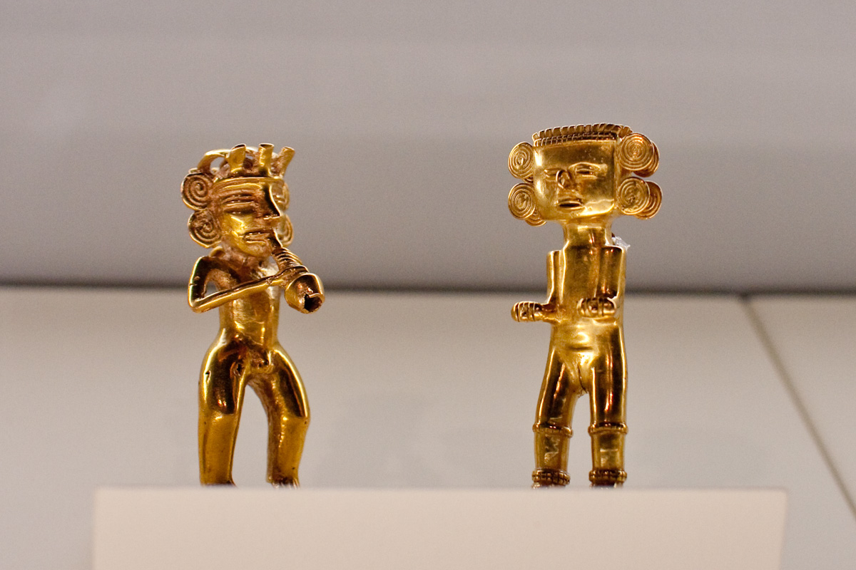 Gold figures (musician at the left and a dancer to the right) in the Museo del Oro Precolombino, San Jose, Costa Rica.